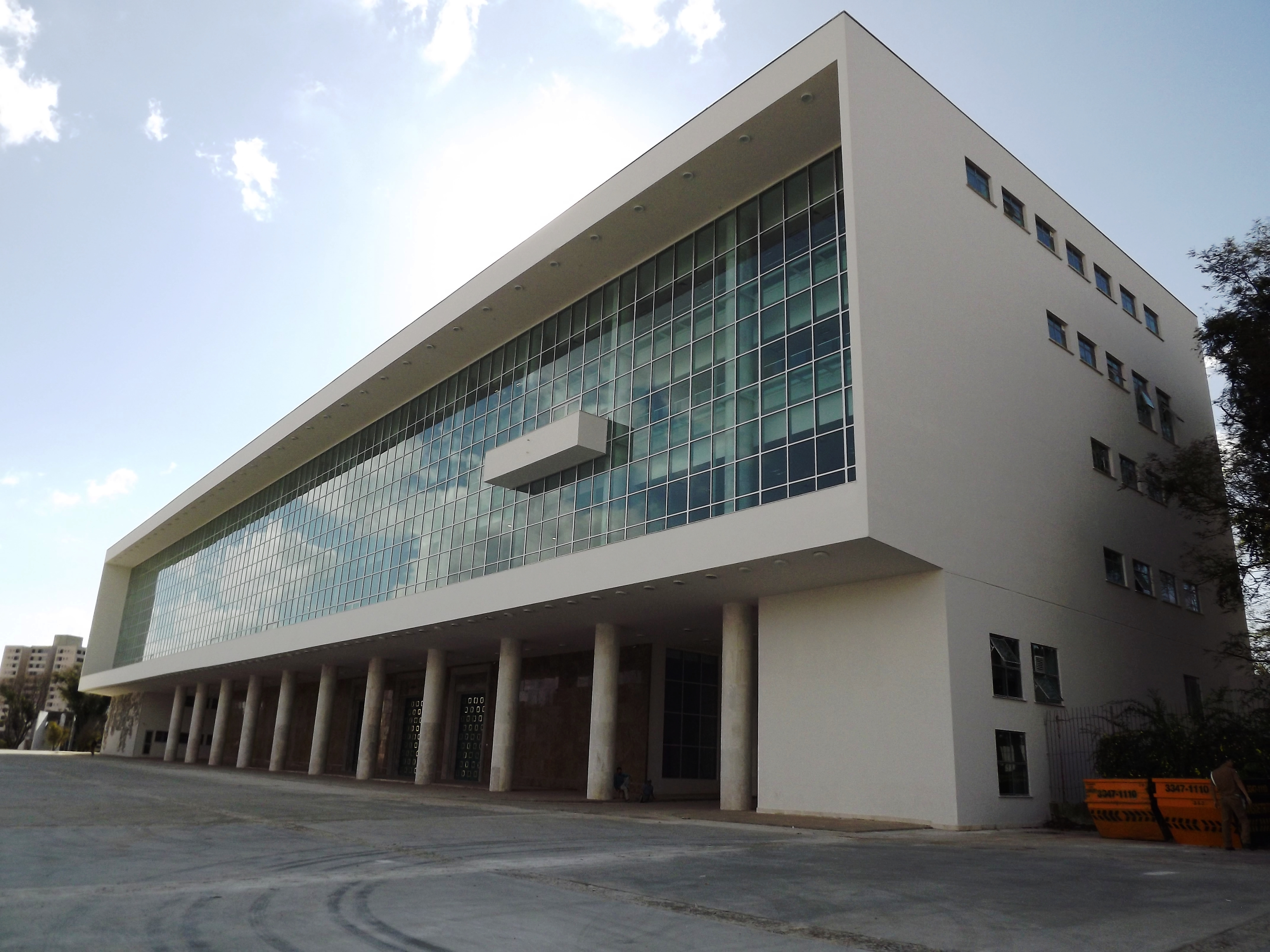 Iguaçu Palace in Curitiba, was the seat of government of Brazilian state of Parana from 1953 to 2007 and from December 18, 2010 has once more become what it is today.